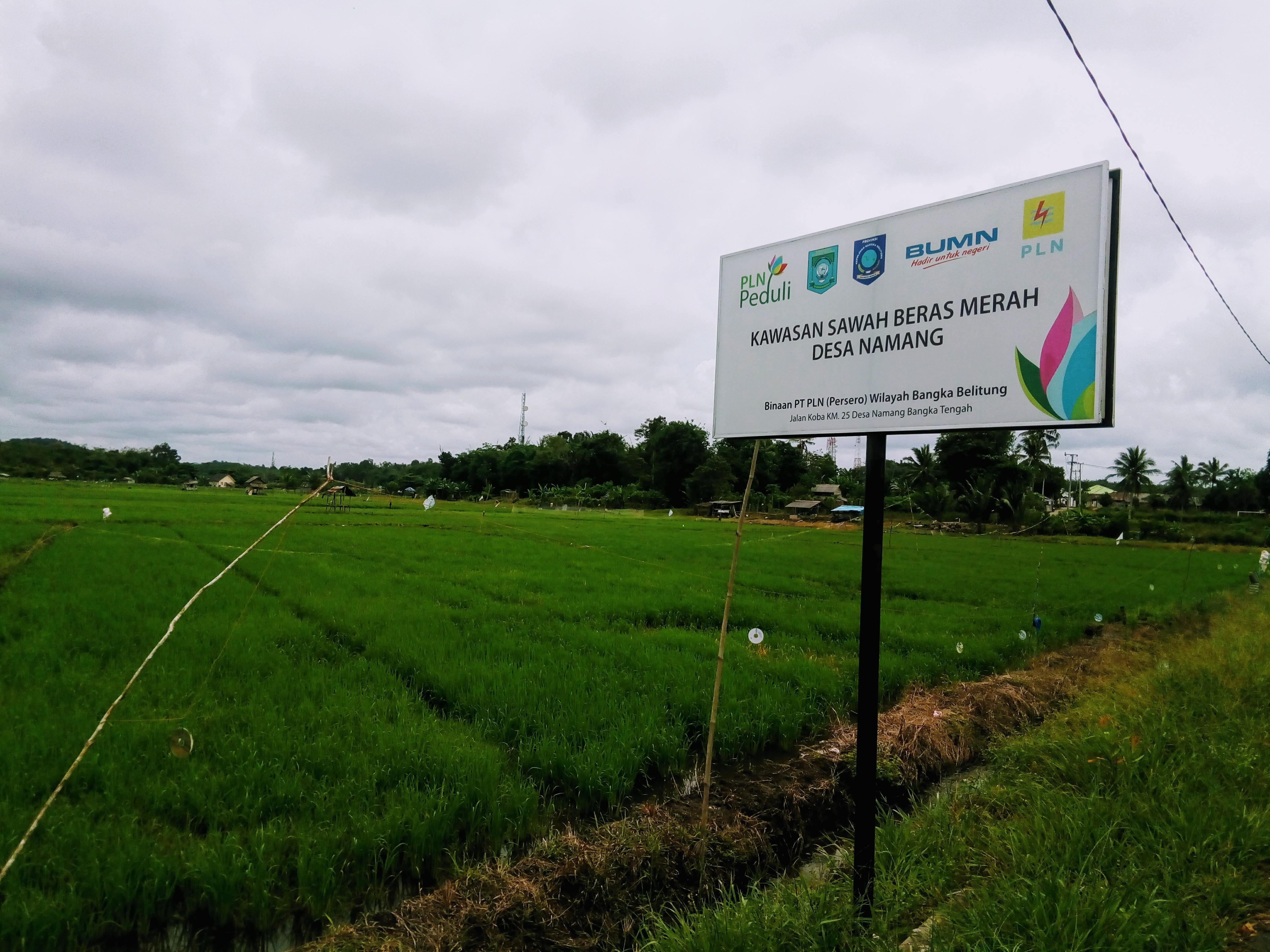 Namang Village red rice paddy field.